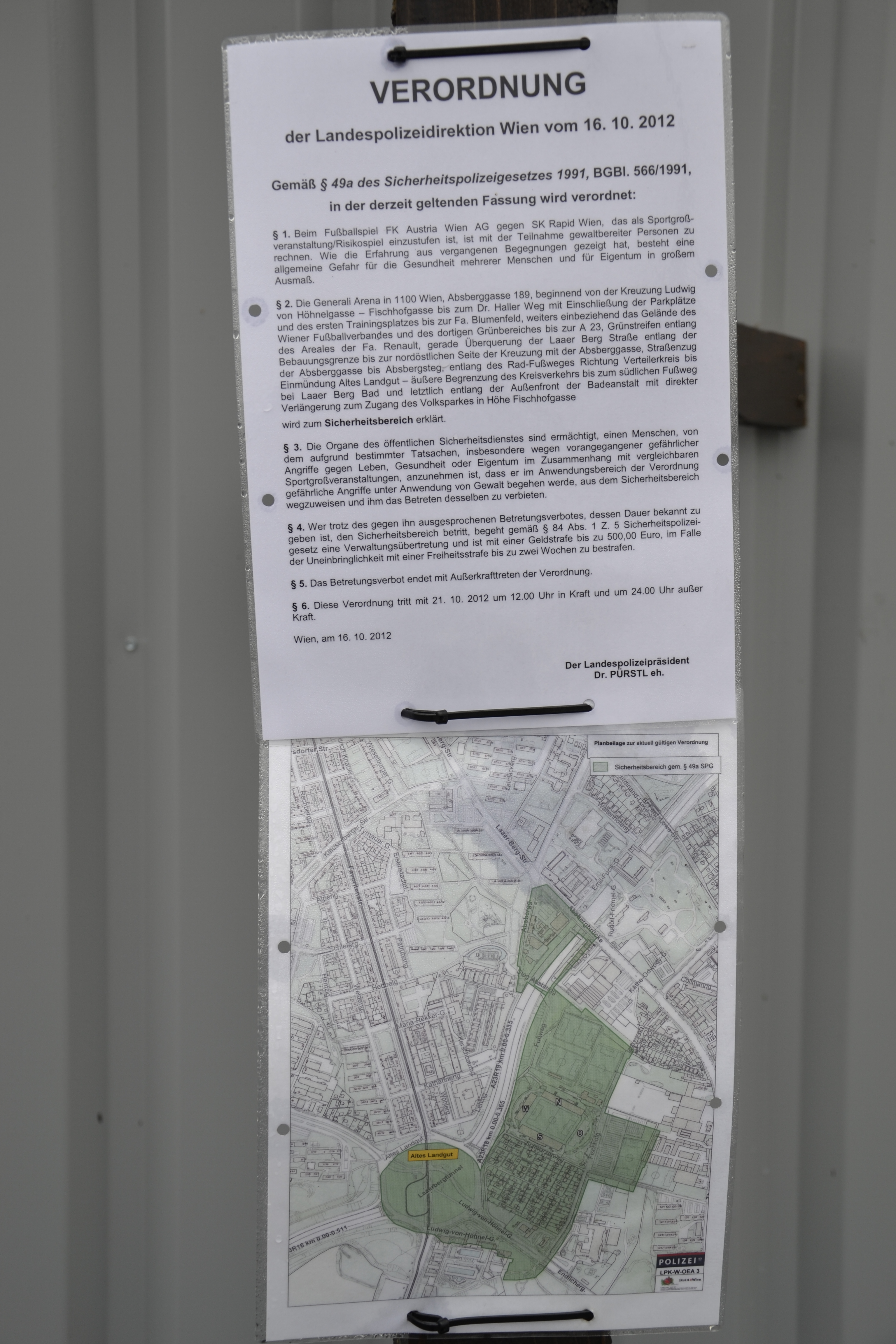 Order of the Bundespolizeidirektion Wien (Federal Police Directorate Vienna) to declare an area arround the Generali Arena in Vienna as a Sicherheitsbereich (security area), where police forces have special rights.